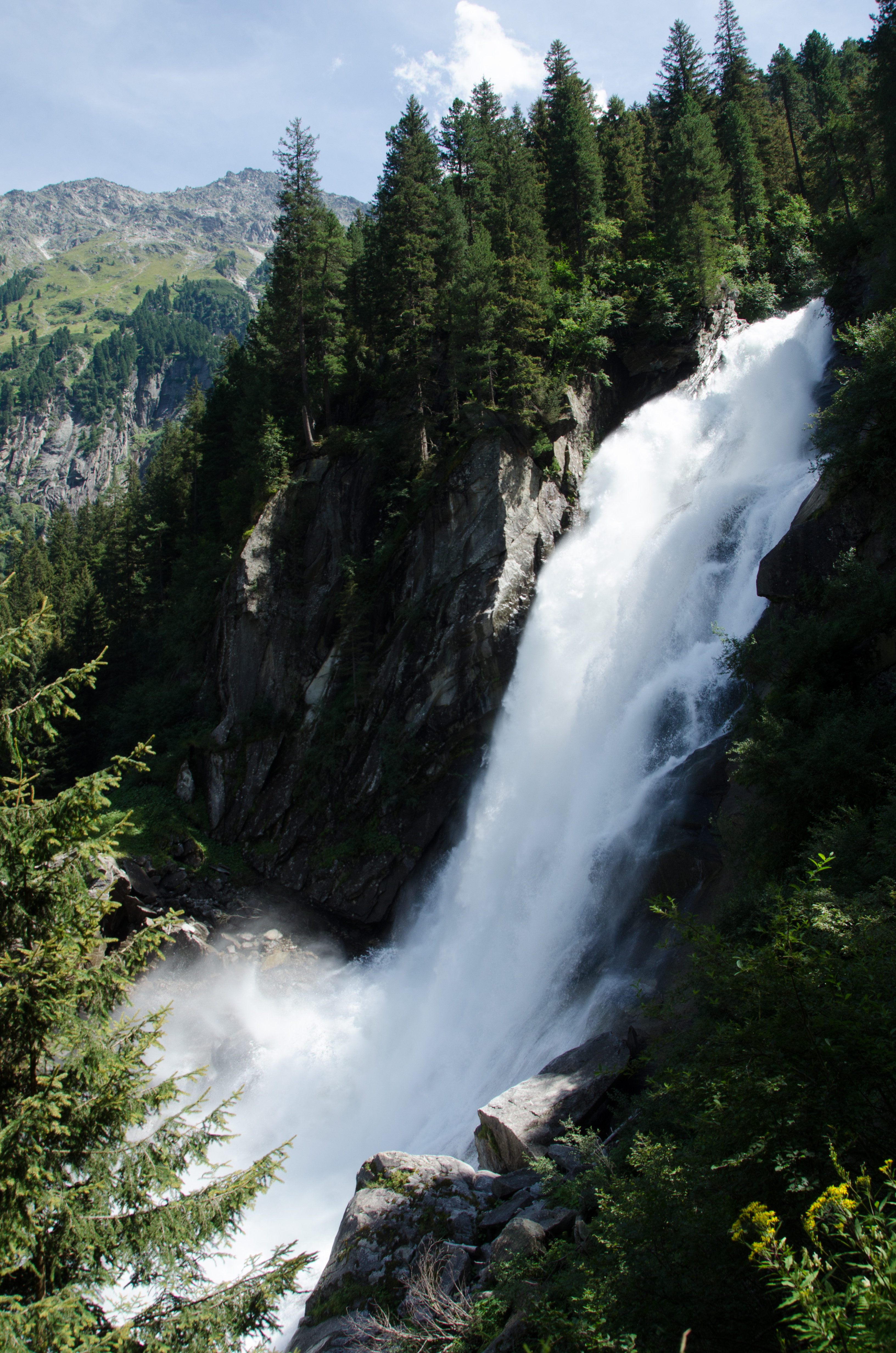 Lower part of the Krimmler Wasserfalle in Krimml, Salzburg, Austria